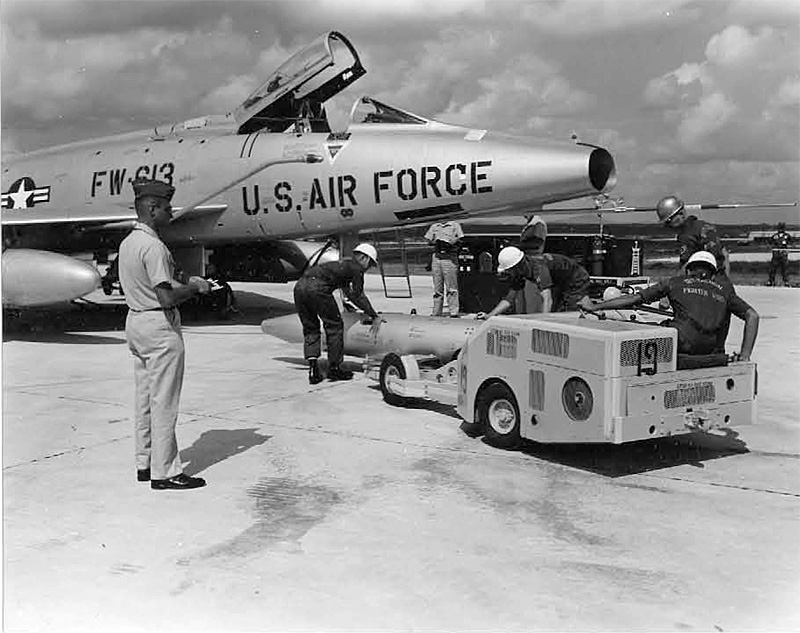 USAF photo #109805 depicts a Mark 28 bomb (not identified as a nuclear weapon) being transported to an F-100 via bomb lift truck by the load crew of the 18th Tactical Fighter Wing during the 1st annual Pacific Air Force Munitions Loading Competition, 23 October 1962 at Kadena Air Base (Photo taken by 1352nd Photo Group).